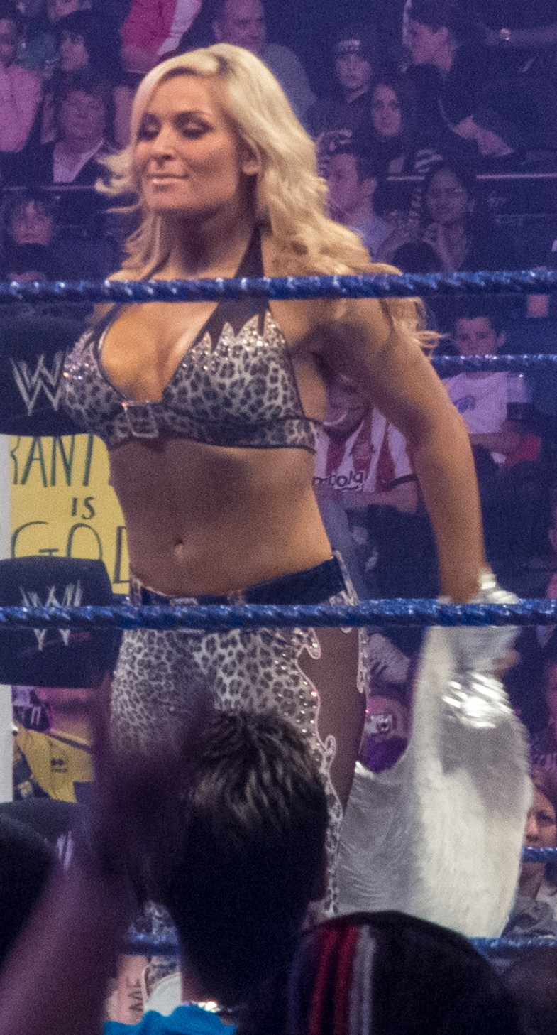 Natalya at the WWE SmackDown tapings on 17 April 2012.